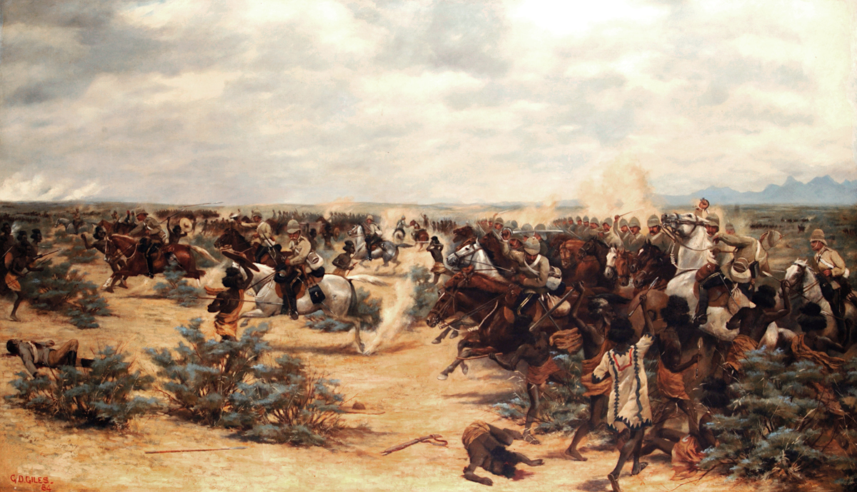 Charge at El Teb, Sudan. Oil on canvas. Museum of the King's Royal Hussars